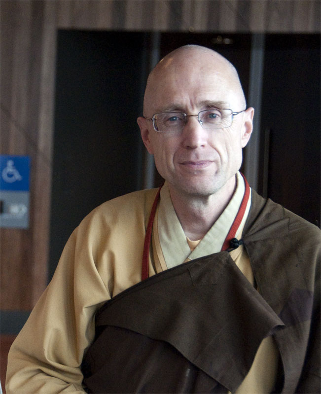 Photo from Parliament of World's Religions.